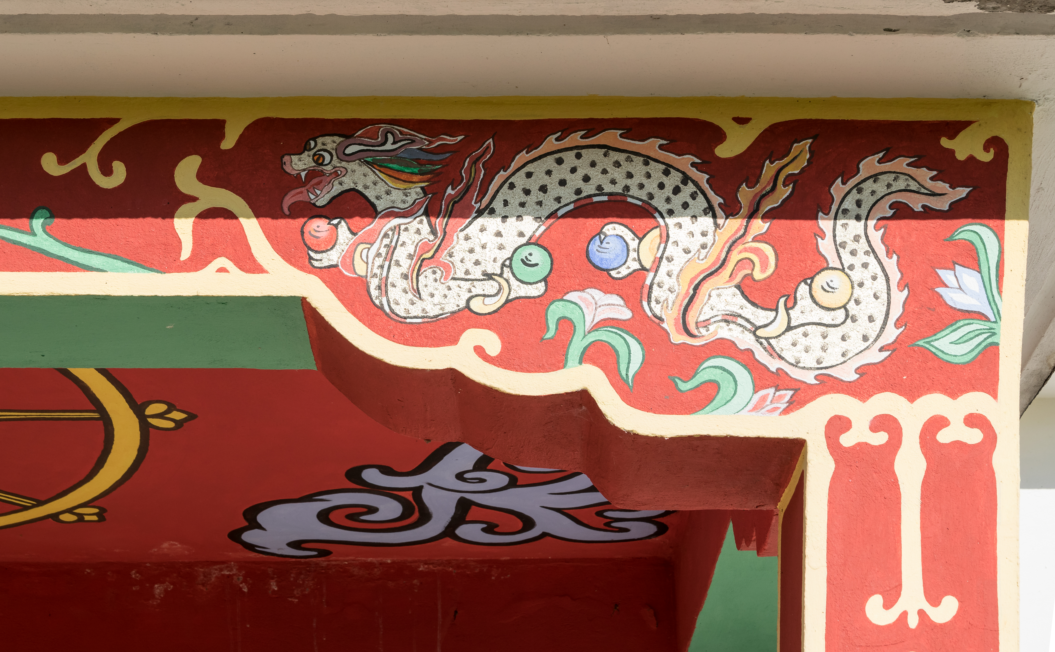 Stupa in Gompa Drophan Ling in Darnków, Nāga